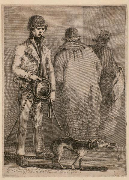 George Dyball, and his dog by JT SMITH